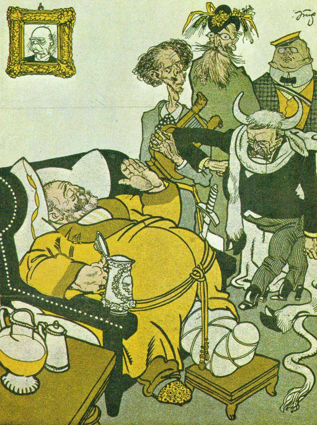 Austrian politician Georg Schoenerer was sentenced to prison because in 1888 he conducted a raid on a newspaper office that had prematurely published the death notice of Kaiser Willhelm I. While doing so, he was drunk, and thus this political cartoon responds to his situation.